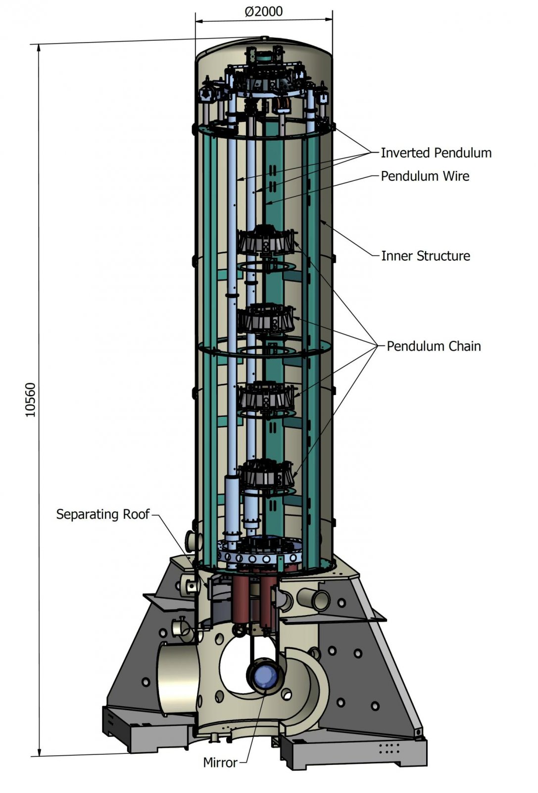 The Virgo superattenuator -- the suspension system for the Virgo mirrors